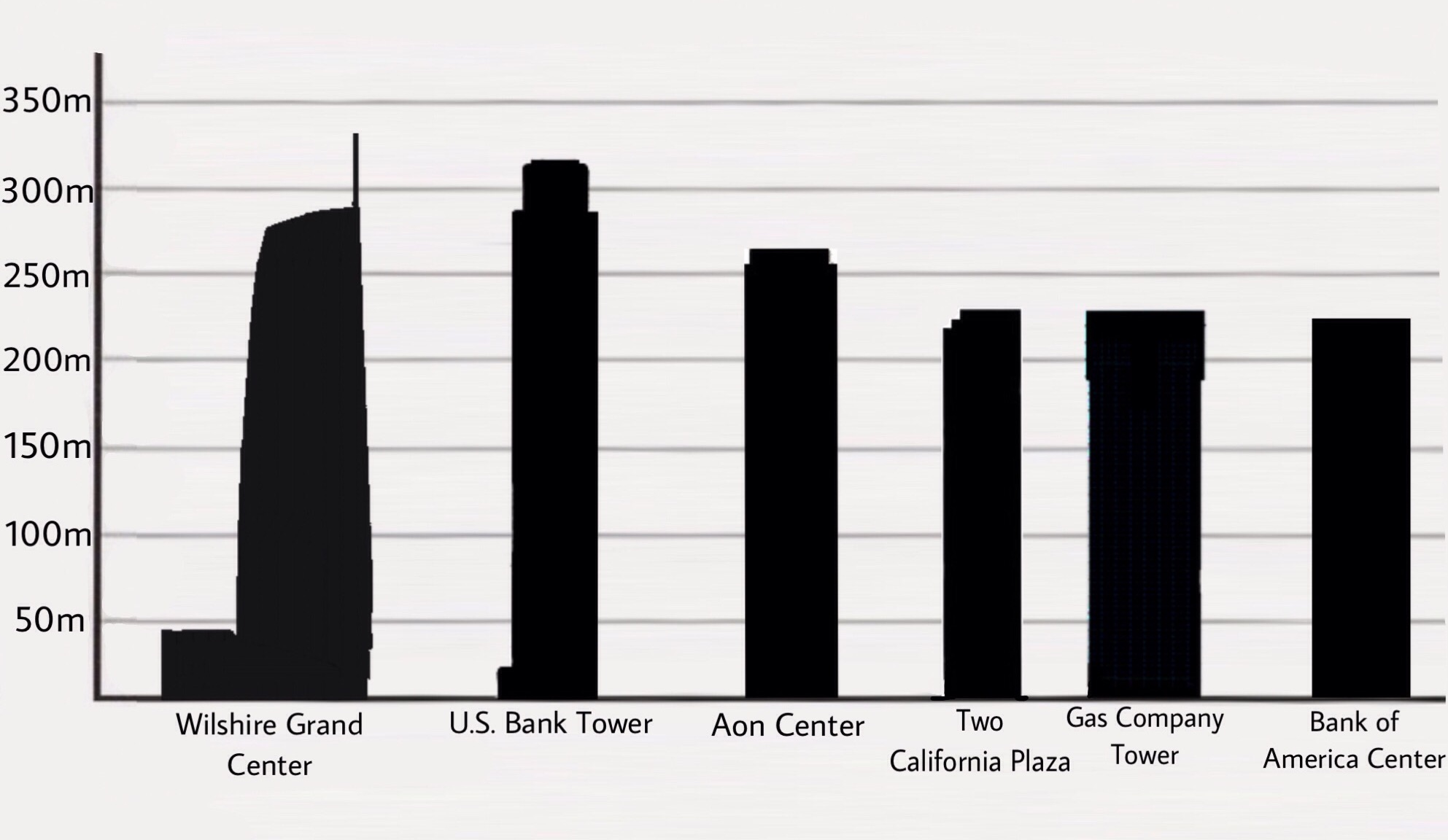 The six tallest skyscrapers in Los Angeles.